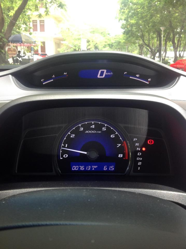 Honda Civic 8th generation's driver console. (Thai Model)